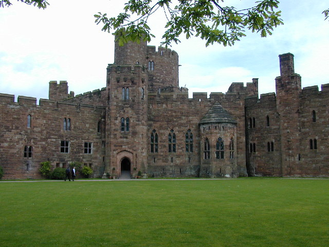 Photograph